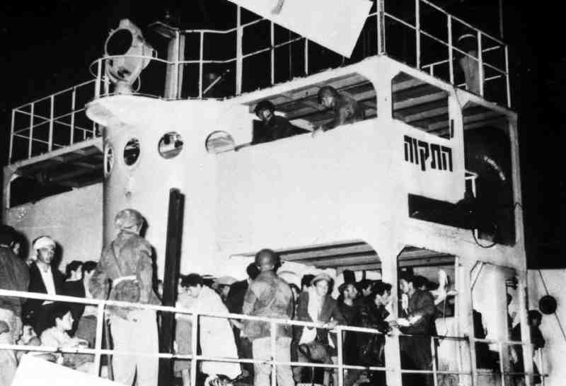 Hatikva Ship, Immigration to Israel